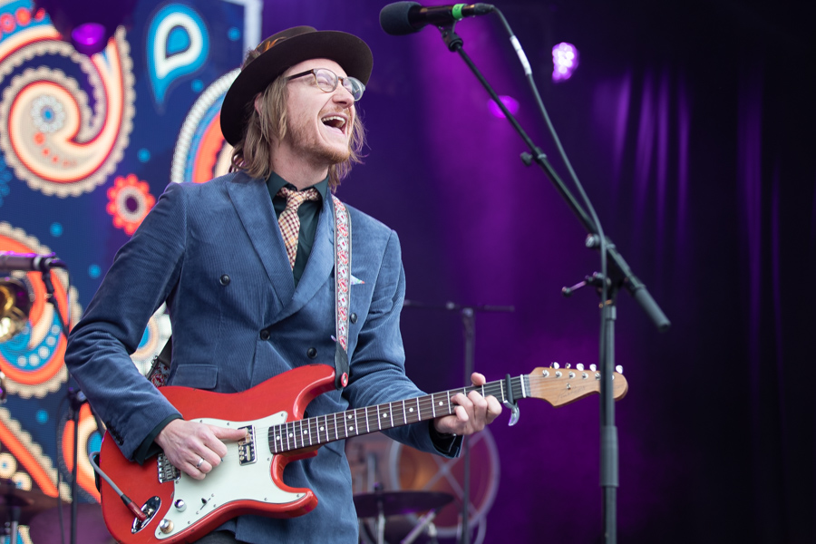 Adam Douglas at the main stage at Grefsenkollen. The concert was part of Over Oslo and took place on 20. June 2018 in Oslo. Lineup:Adam Douglas (vocal)Unidentified (guitar)Unidentified (bass guitar)Unidentified (keyboard)Unidentified (drums)Unidentified (trombone)Unidentified (saxophone)Unidentified (trumpet)Unidentified (backing vocal)Unidentified (backing vocal)